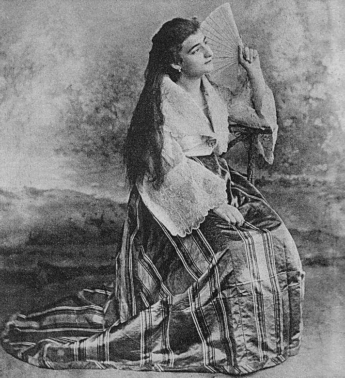 Maria Clara gown the traditional gown of the Philippines traditionally worn with Fan and Pañuelo